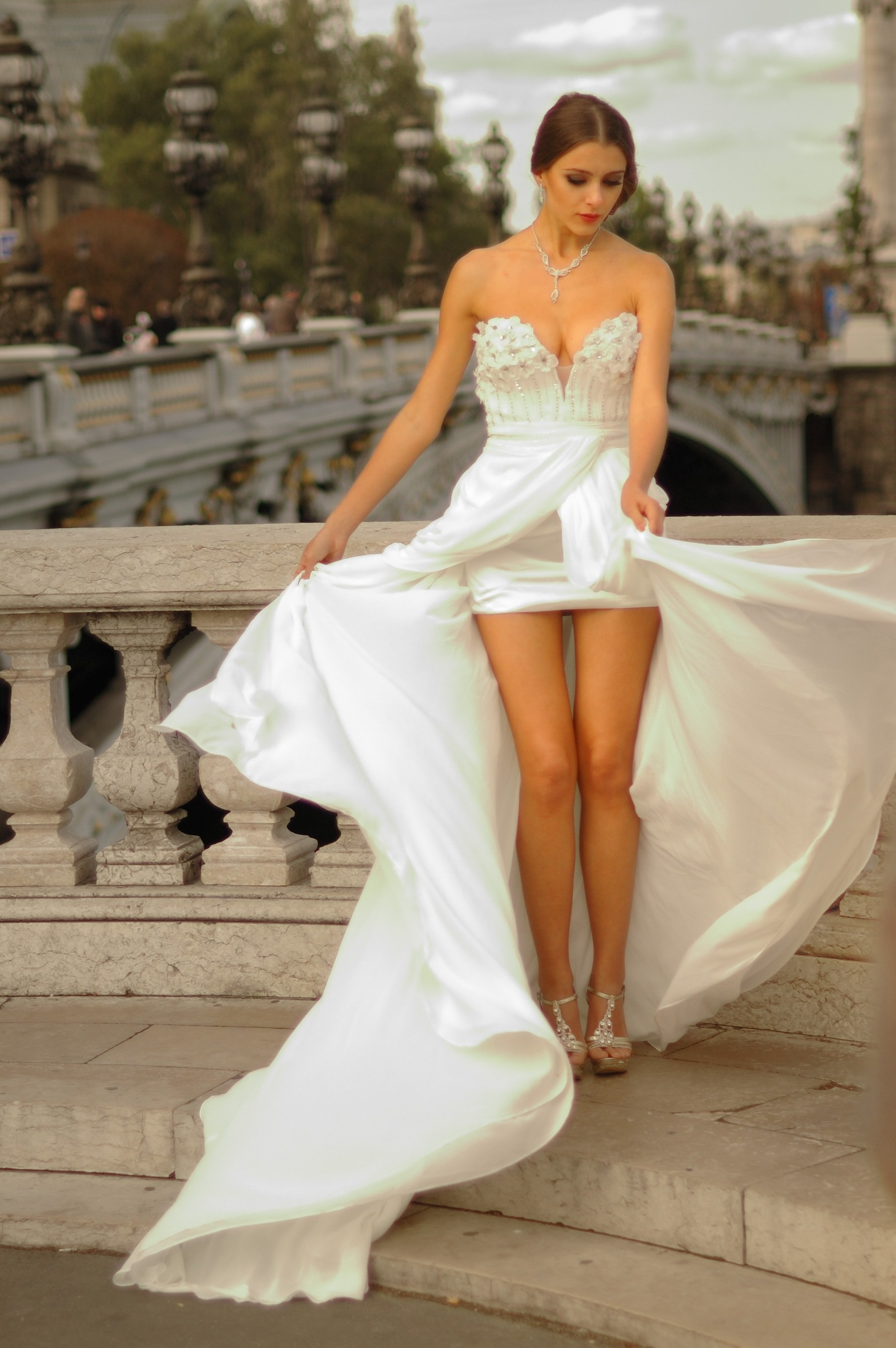 Paris is an amazing city for artists. I was lucky to find this model shoot on my way back from the Eiffel tower to Notredame along the Quai d'Orsay. September 22nd 2012. Nikon D70 Manual mode 1/3000 f1.4 50mm No flash. It was 5.20pm so the sun was perfectly located to the West.